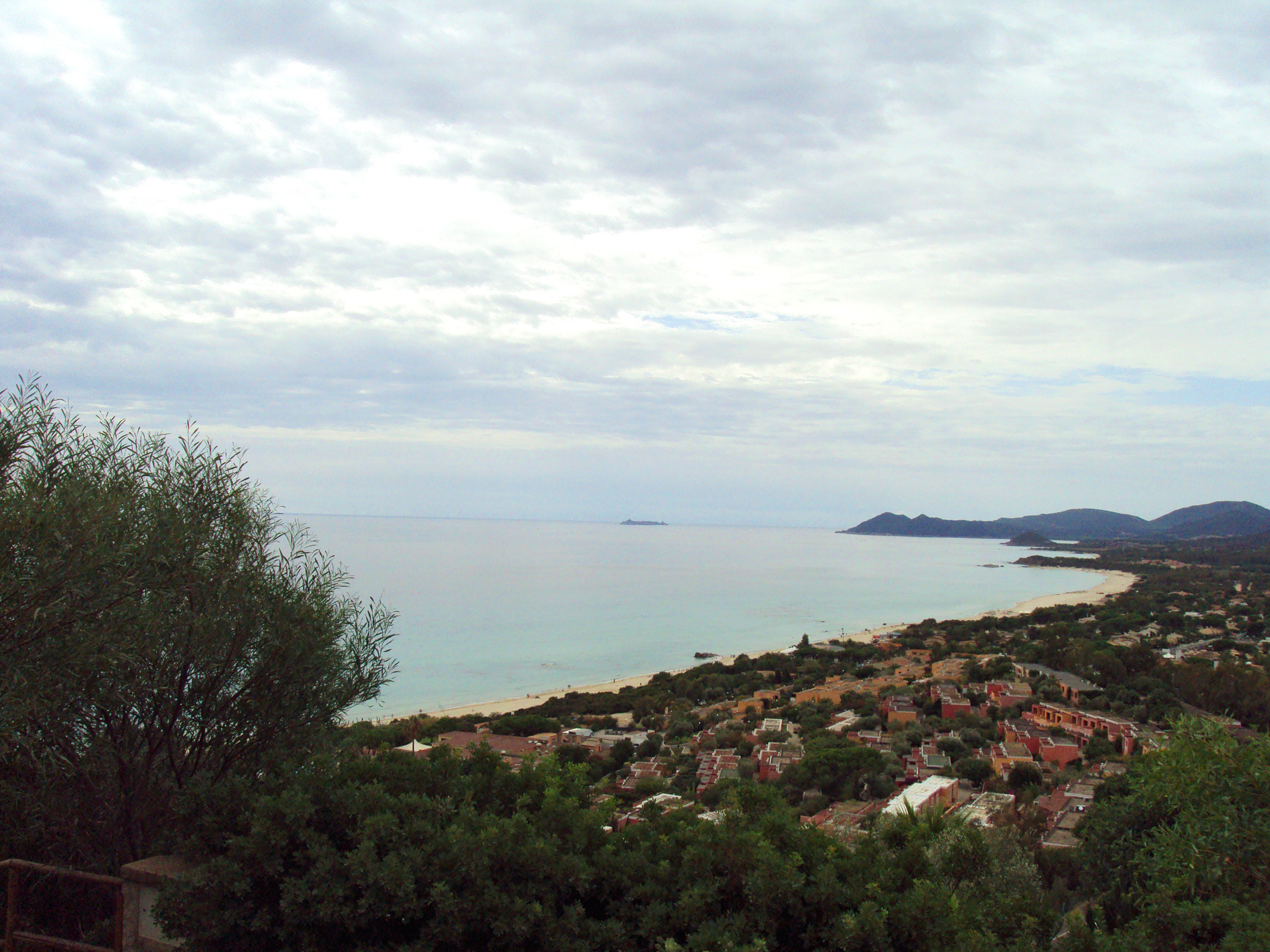 Costa Rei as seen from Monte Nai to the south.